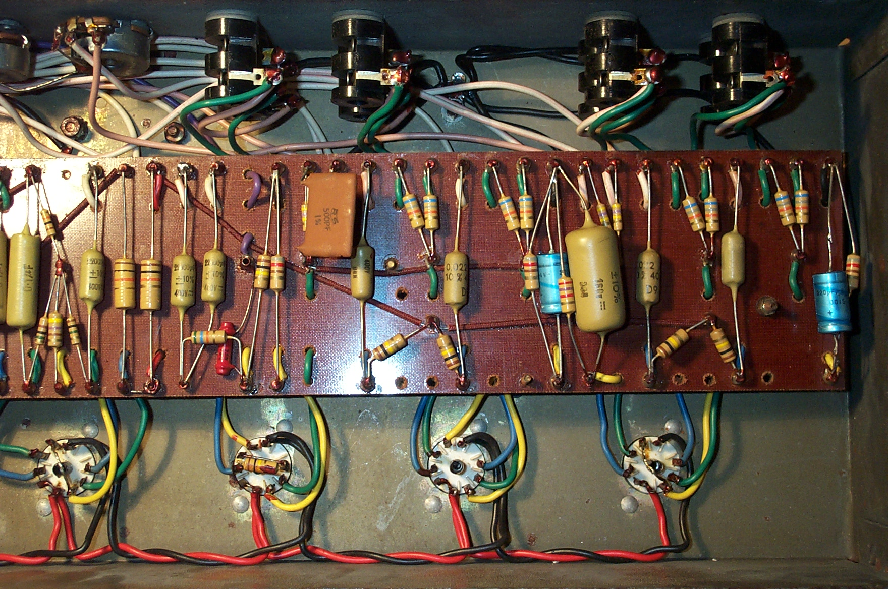 Preamp stage.